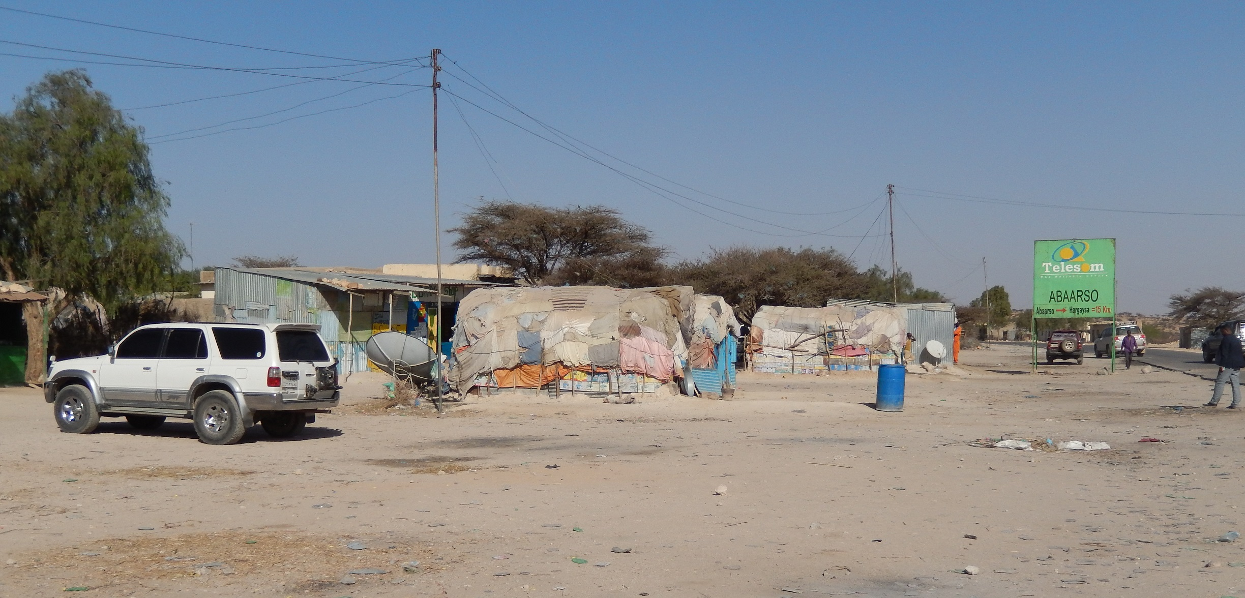 Street scene in Abaarso, a village 15 km West of Hargeisa (Woqooyi Galbeed (Maroodi Jeex), Somaliland, Somalia).